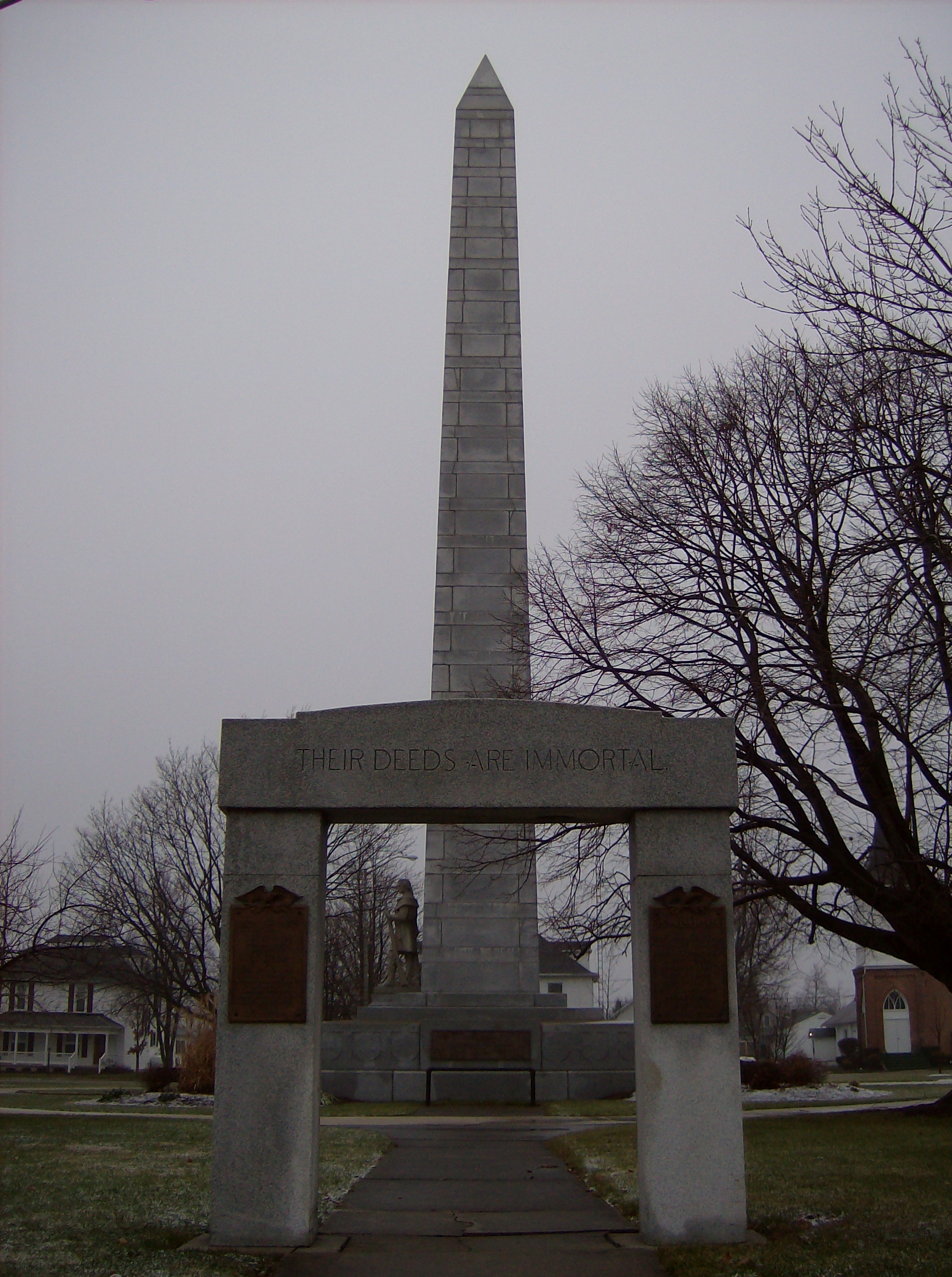 Fort Recovery memorial obelisk in Fort Recovery, Ohio, United States, located along E. Butler St. east of Elm St.